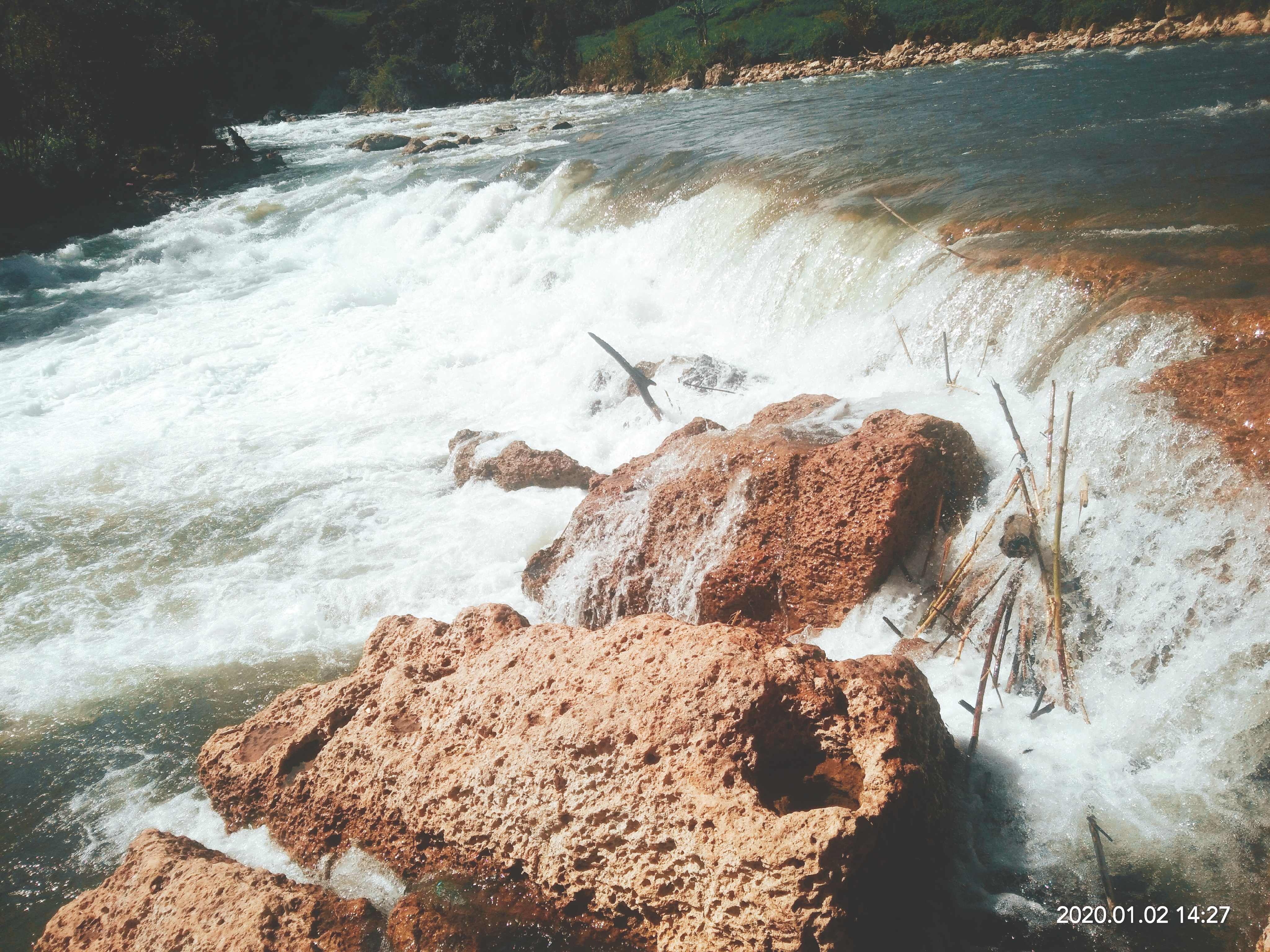 kali yawei (sungai muara) pada siang hari dikabupaten DEIYAI